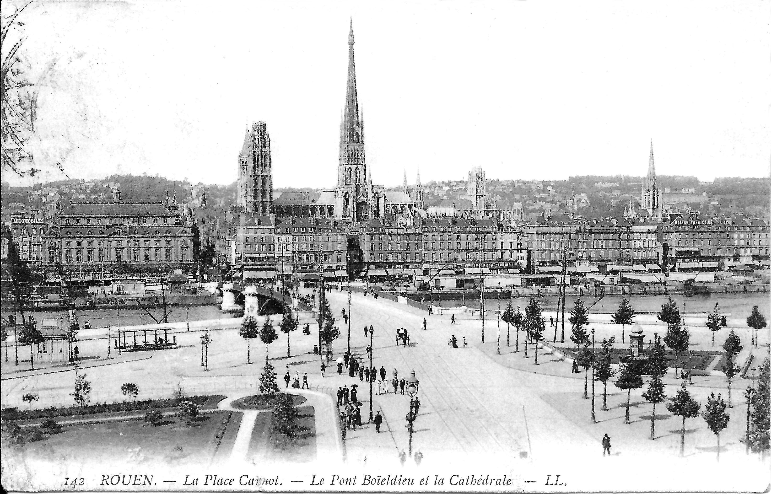 Postcard LL nr 142: La place Carnot. Le Pont Boïeldieu et la Cathédrale. The old Place Carnot doesnt exist anymore, but there is a Place Carnot more to the east close by.